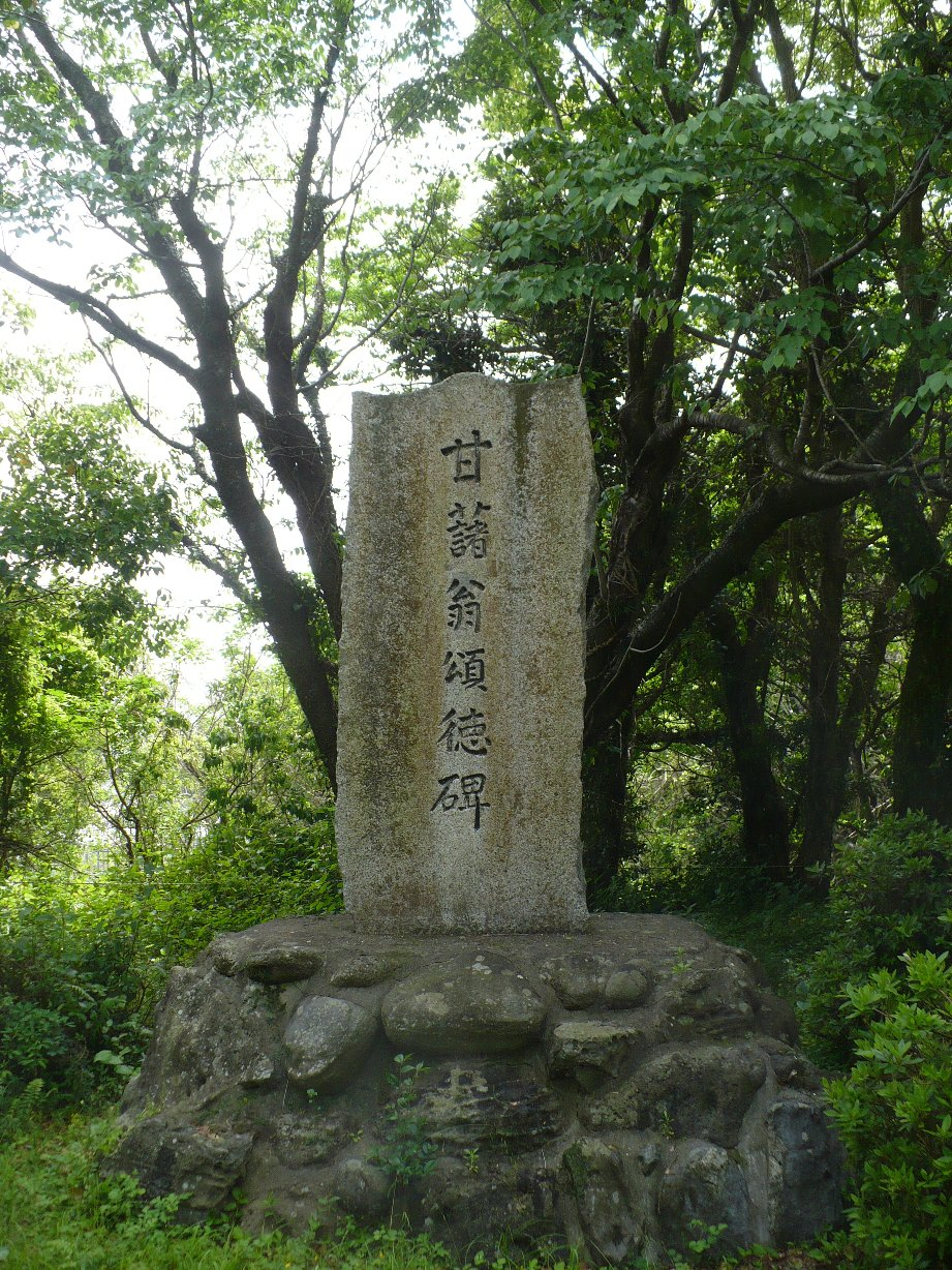 Memorial stone to coming of sweet potato to Kagoshima, Japan and MAEDA Riemon, who brought sweet potato to Kagoshima from Ryukyu (Okinawa), at Tokko shrine, Yamagawa-Okachogamizu, Ibusuki, Kagoshima, Japan.